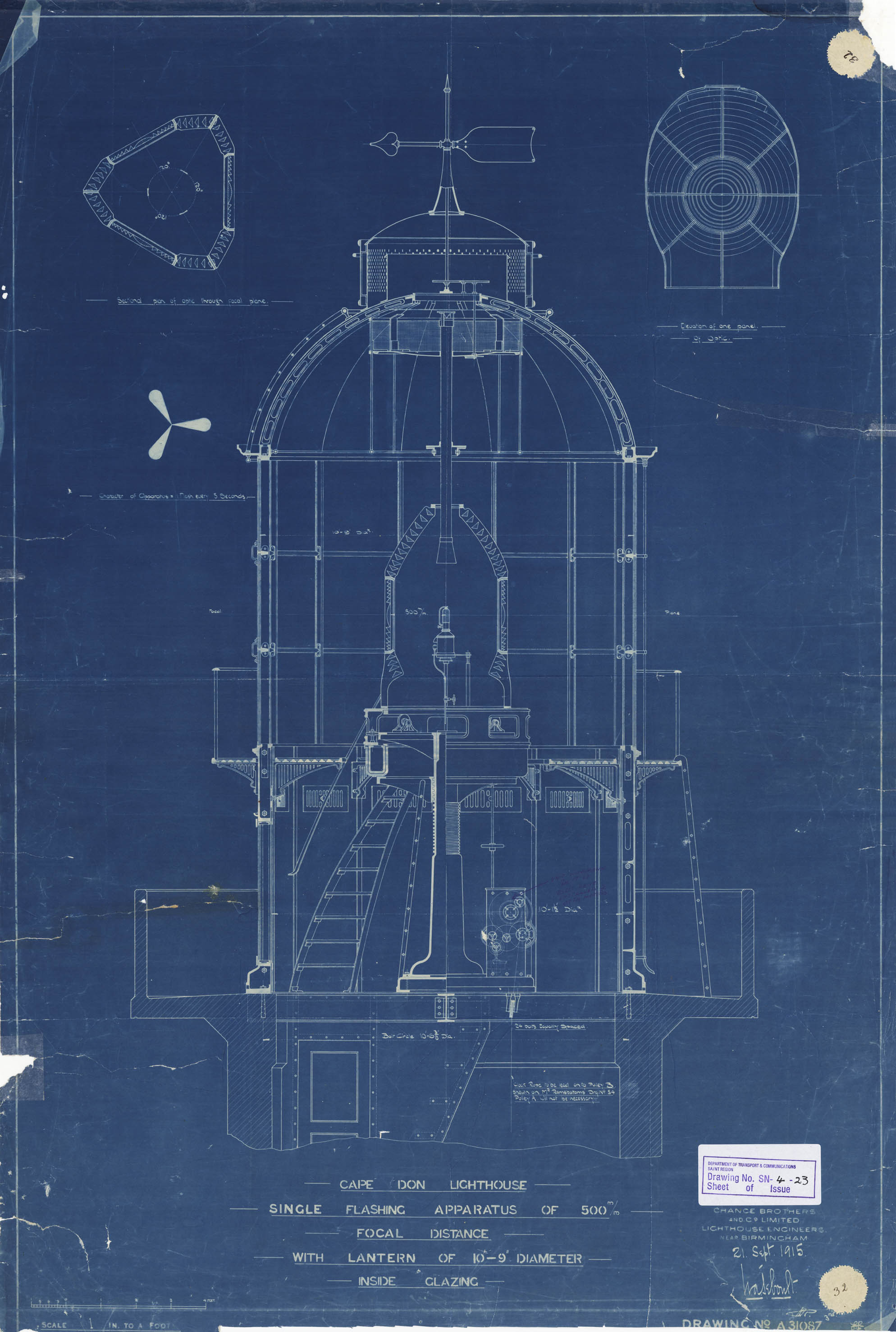 Cape Don Light - single flashing apparatus of 500mm focal distance with lantern of 10-9 diameter inside glazing - drawing plan, 1915